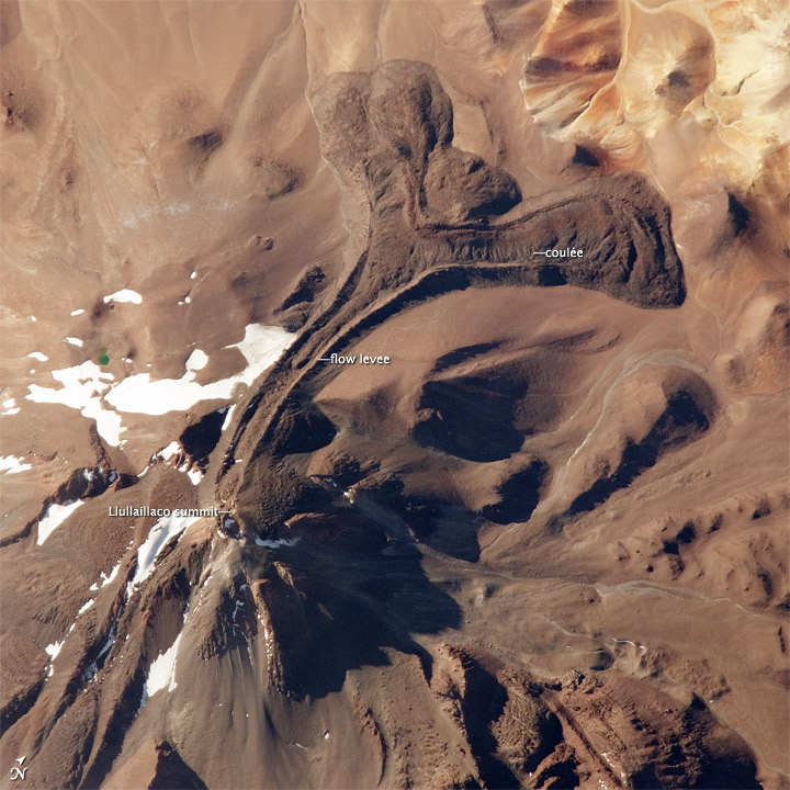 The summit of South America’s Llullaillaco Volcano has an elevation of 6,739 meters (22,110 feet) above sea level, making it the highest historically active volcano in the world. The current stratovolcano—a cone-shaped volcano built from successive layers of thick lava flows and eruption products like ash and rock fragments—is built on top of an older stratovolcano. The last explosive eruption of the volcano, based on historical records, occurred in 1877. This detailed astronaut photograph of Llullaillaco illustrates an interesting volcanic feature known as a coulée (image top right). Coulées are formed from highly viscous, thick lavas that flow onto a steep surface. As they flow slowly downwards, the top of the flow cools and forms a series of parallel ridges oriented at 90 degrees to the direction of flow (somewhat similar in appearance to the pleats of an accordion). The sides of the flow can also cool faster than the center, leading to the formation of wall-like structures known as flow levees (image center). Astronaut photograph ISS022-E-8285 was acquired on December 9, 2009, with a Nikon D2Xs digital camera using an 800mm lens, and is provided by the ISS Crew Earth Observations experiment and Image Science & Analysis Laboratory, Johnson Space Center. The image was taken by the Expedition 22 crew. The image in this article has been cropped and enhanced to improve contrast. Lens artifacts have been removed.